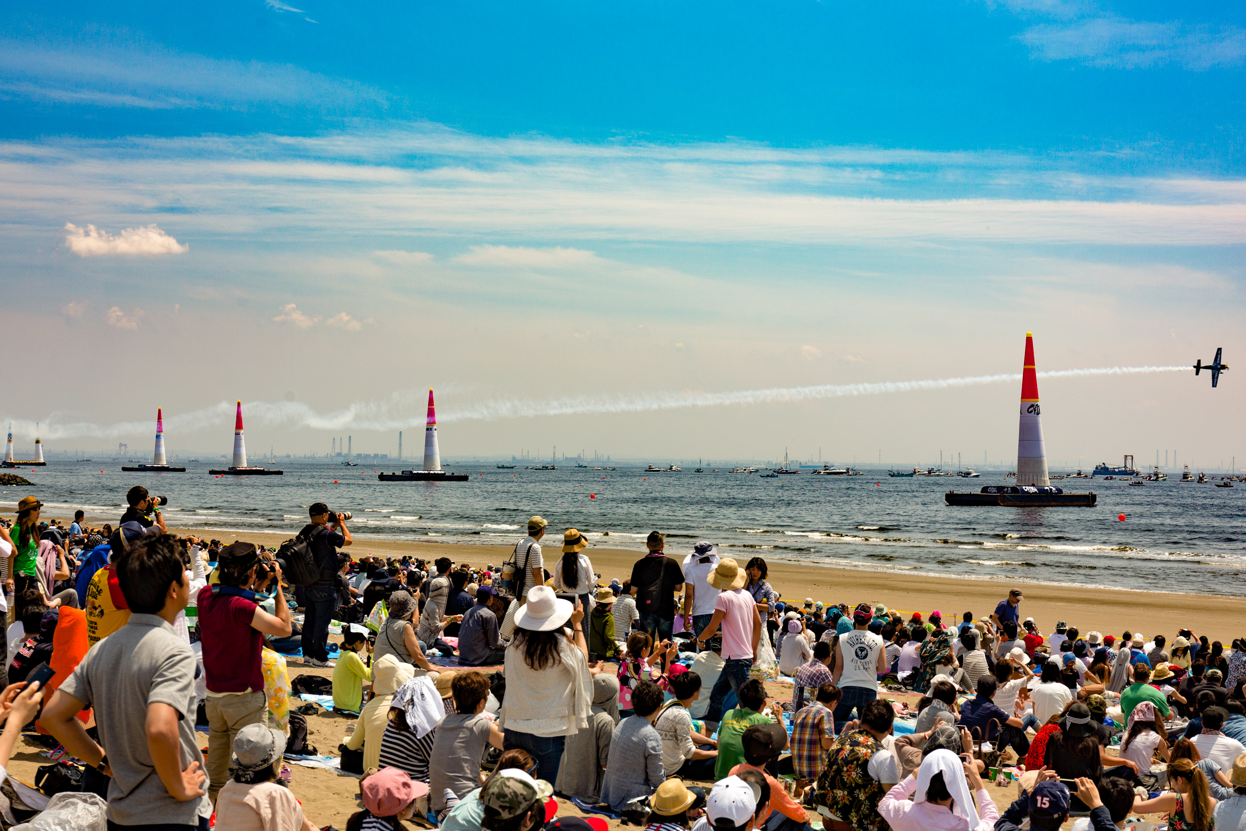 Challenger class (unknown pilot)